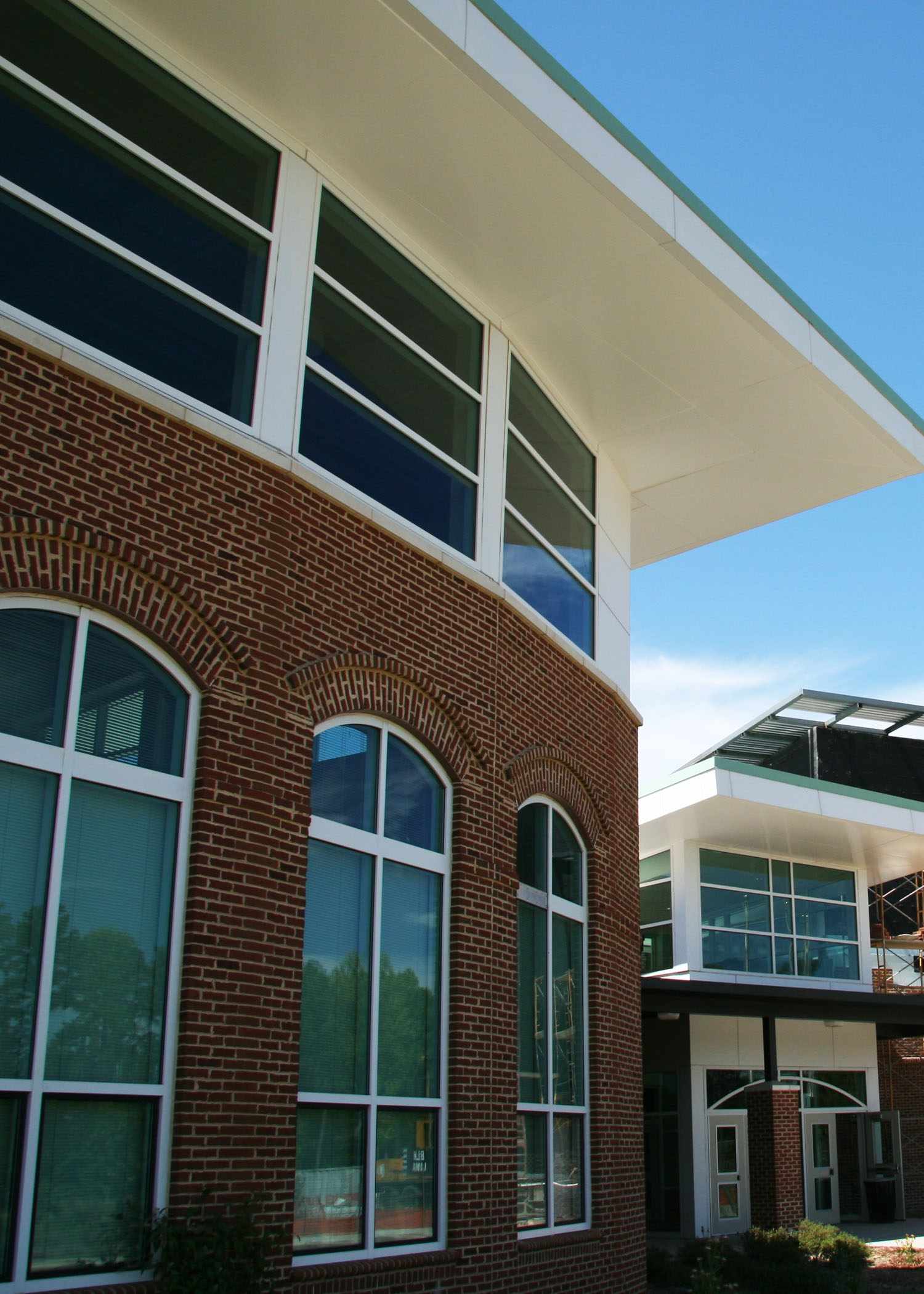 Front Entrance detail of Carrboro High School, Carrboro, part of the CHCCS school system.